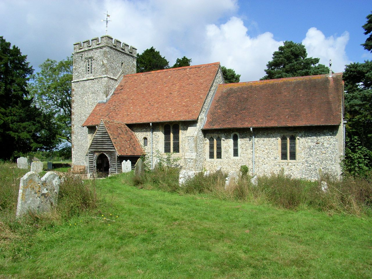 St Giles Church The Church has Norman-era features and was substantially restored in 1879. It is dedicated to Saint Giles and contains a 13th century chest, a Norman font and a Tudor-era pulpit. The bells were restored in 1995 after a 50 year campaign.